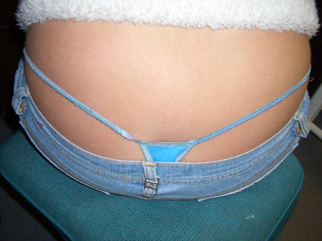 Whale Tail